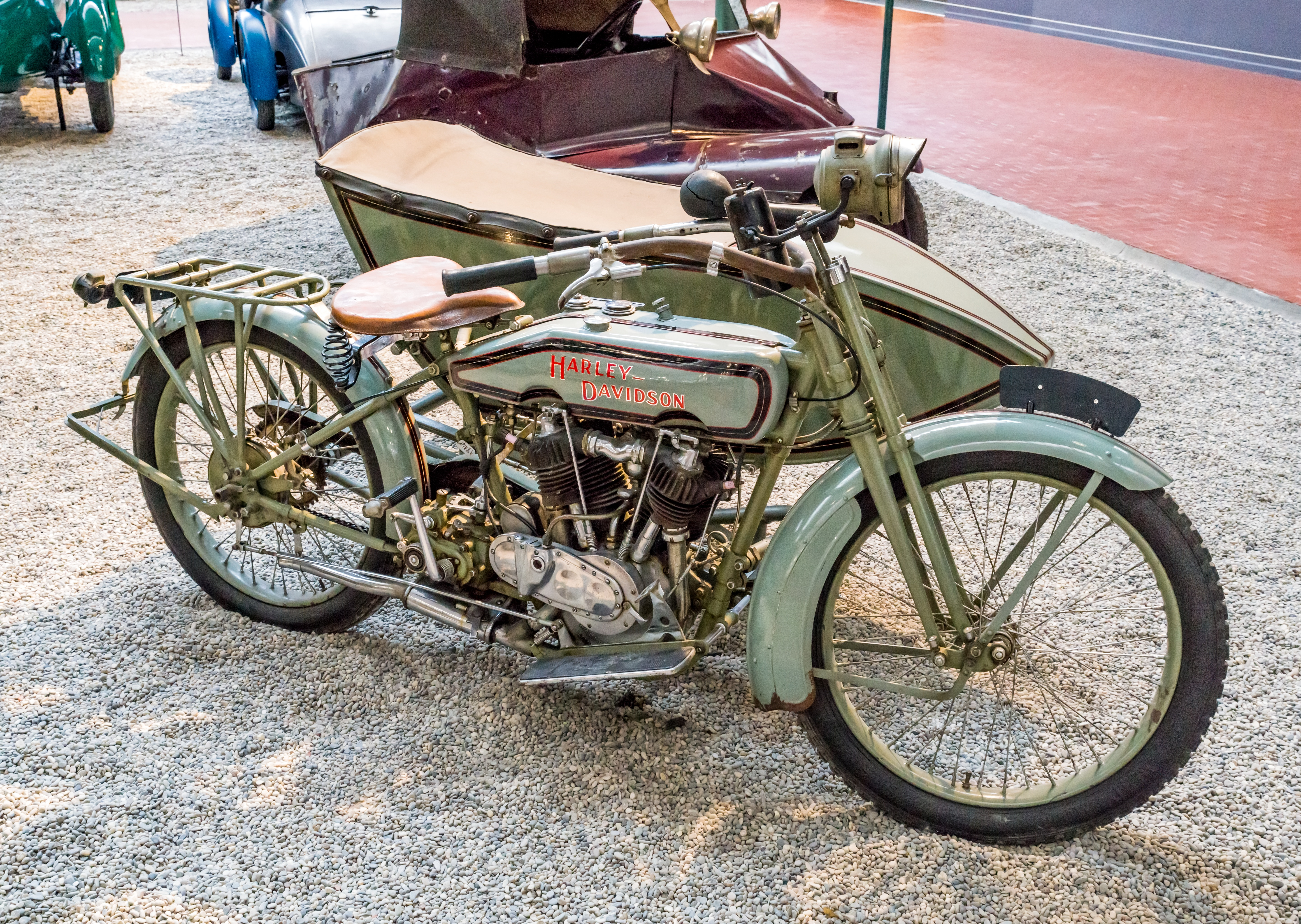 pictures from the Cité de l’Automobile – Musée National – Collection Schlump in Mulhouse, France ptictures from the 10. may 2018